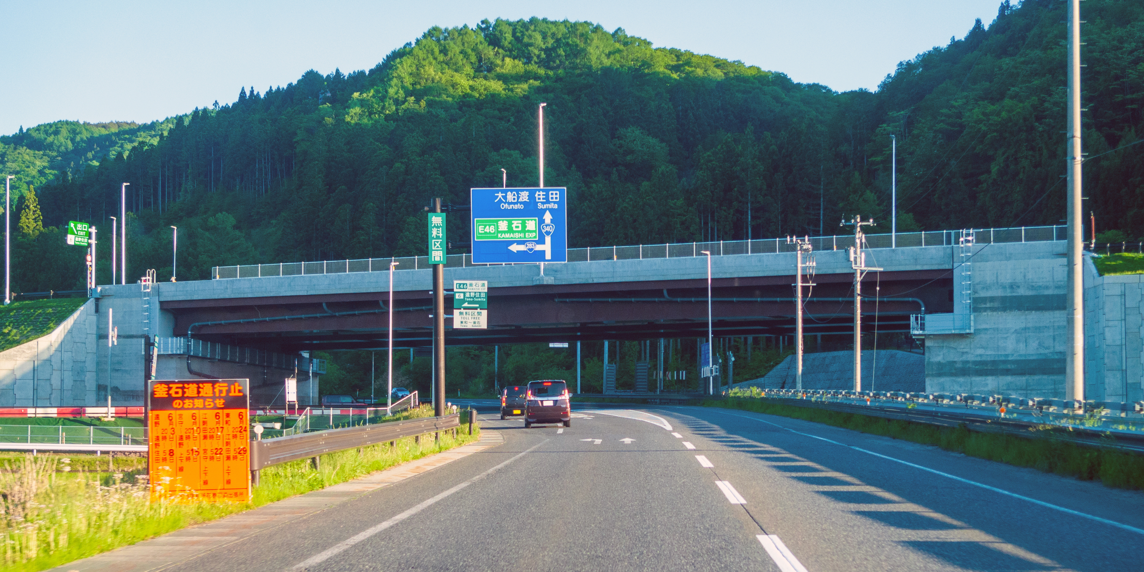 Kamaishi Expressway Tono-Sumita Interchange in Tono City, Iwate Prefecture, Japan